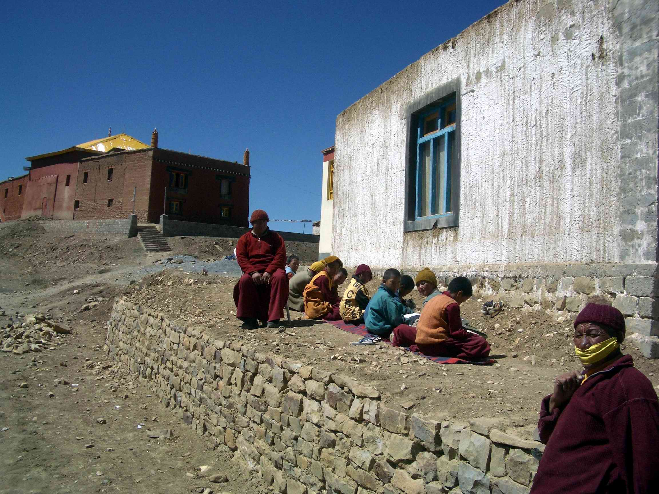 I took this photo myself in 2004 at Tangyud Gompa